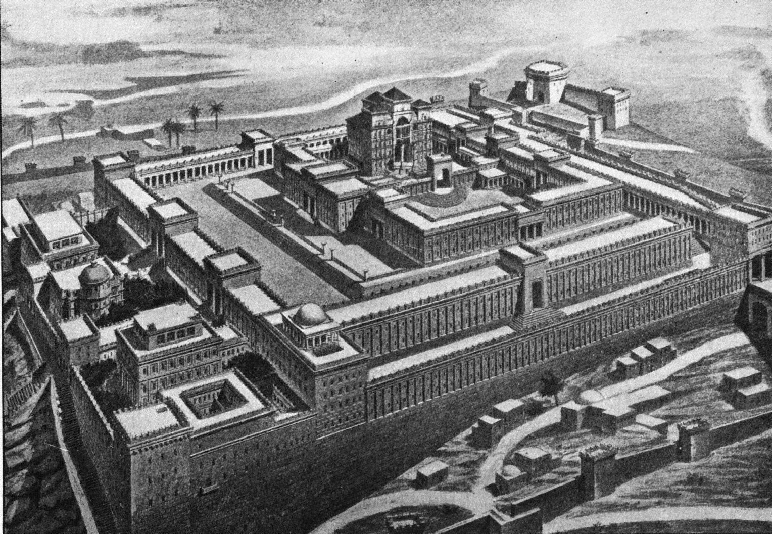 Maquete→Ideal reconstruction of the Temple of Solomon in Jerusalem according to the description from the Bible. (This is not a reconstruction based on archaeological grounds).